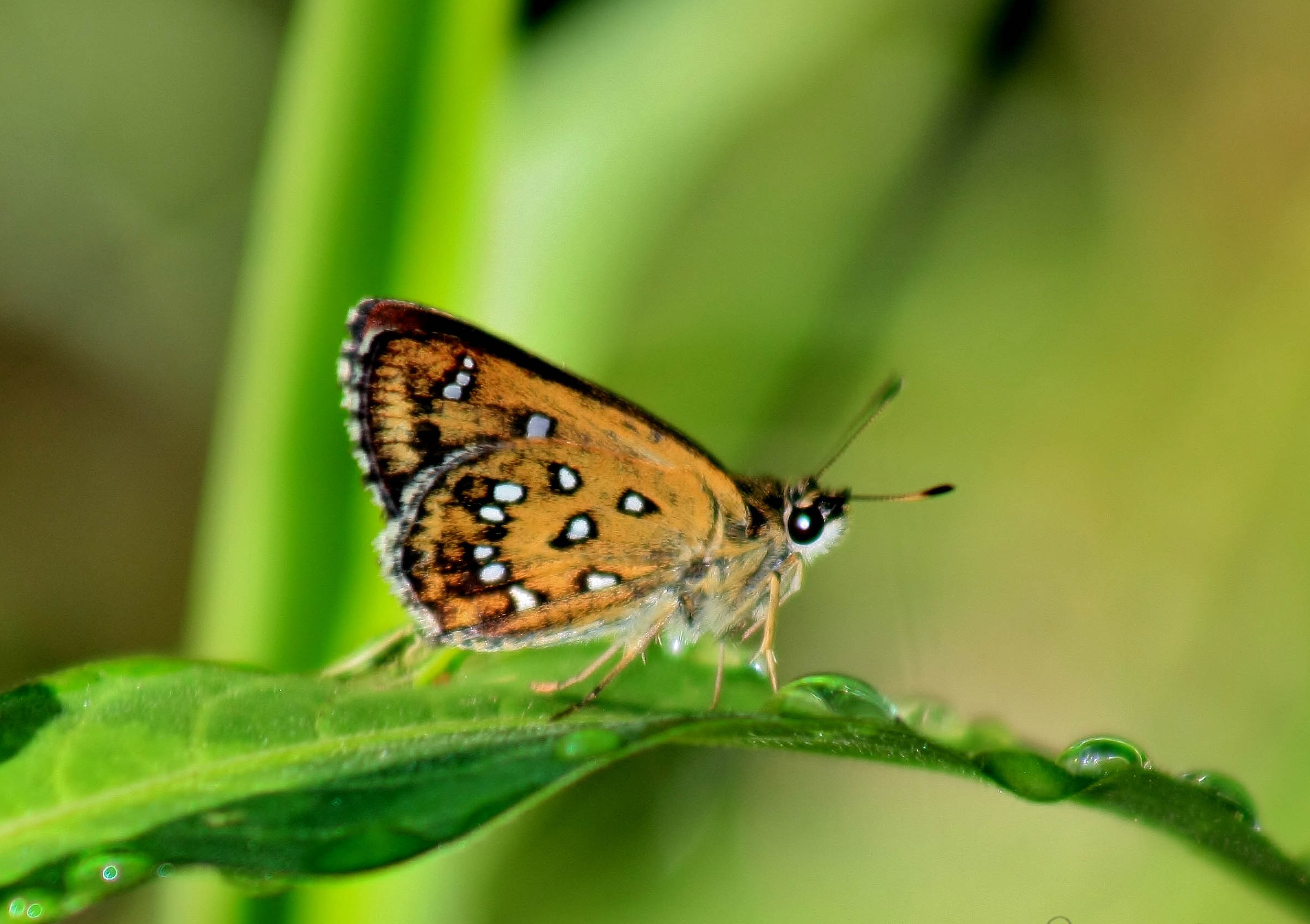 Isoteinon lamprospilus lamprospilus, East NT, HK